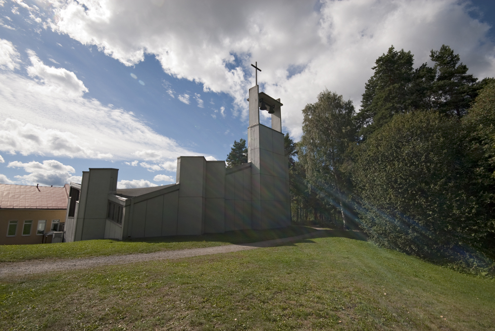 Pispala Church. Back view with belltower and cross.